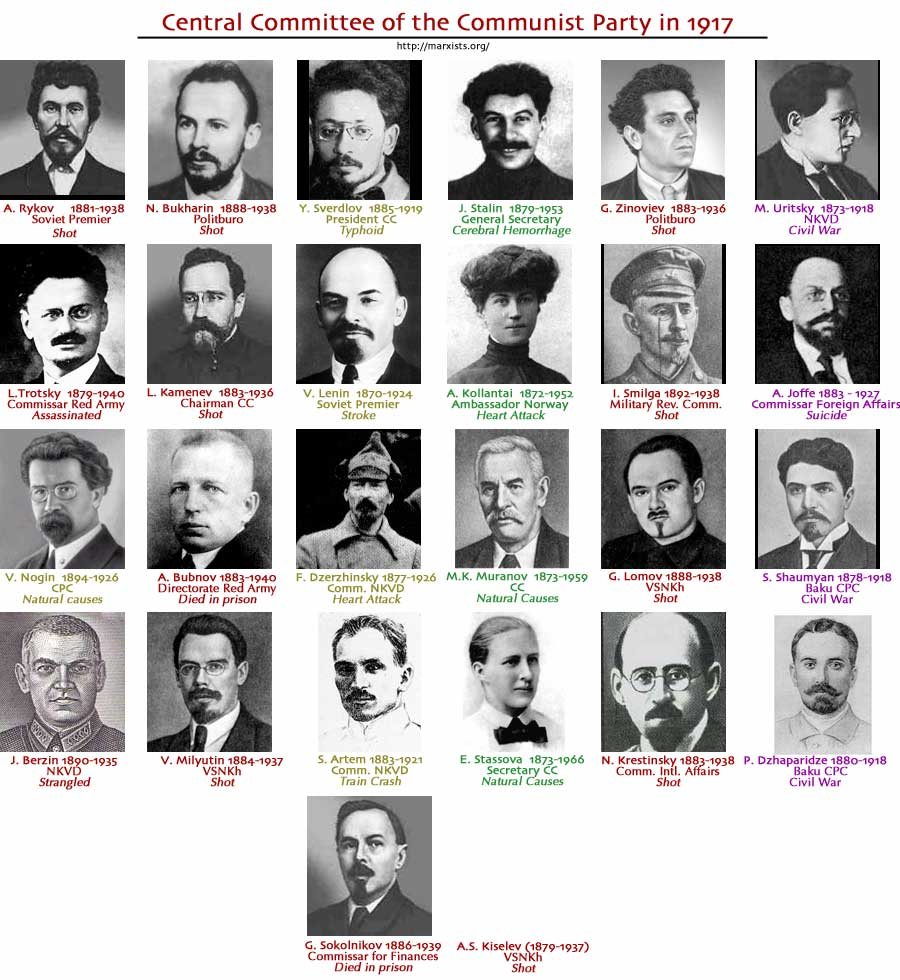 Central committee of the communist party in 1917